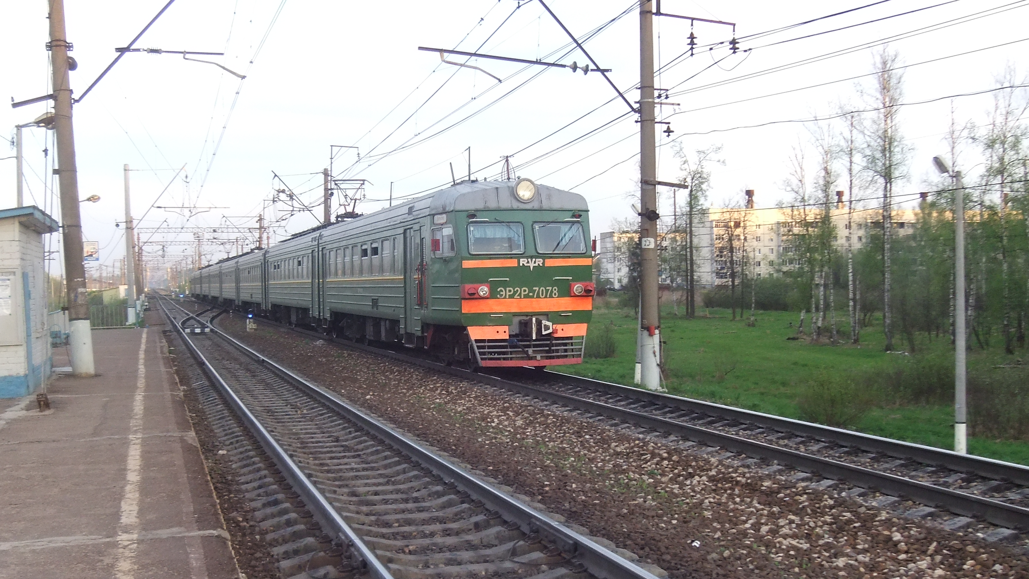 Posyolok Kievskiy Railway Platform. Electrichka with 8 wagons.